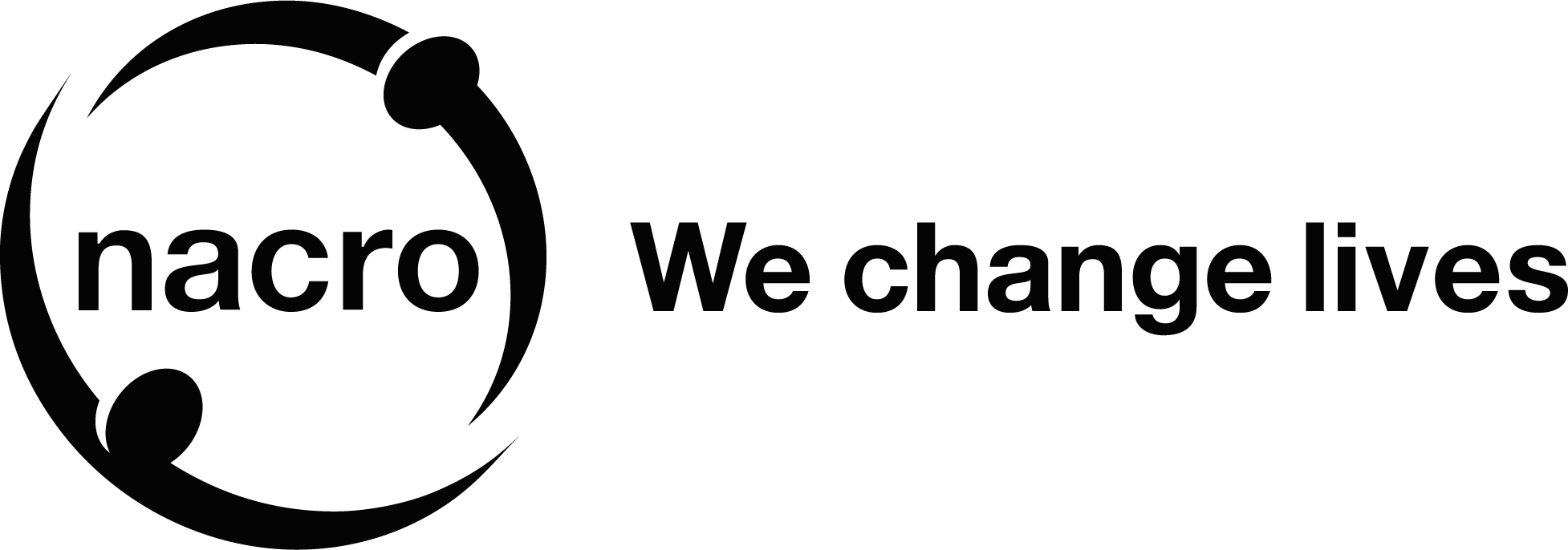 Nacro's logo